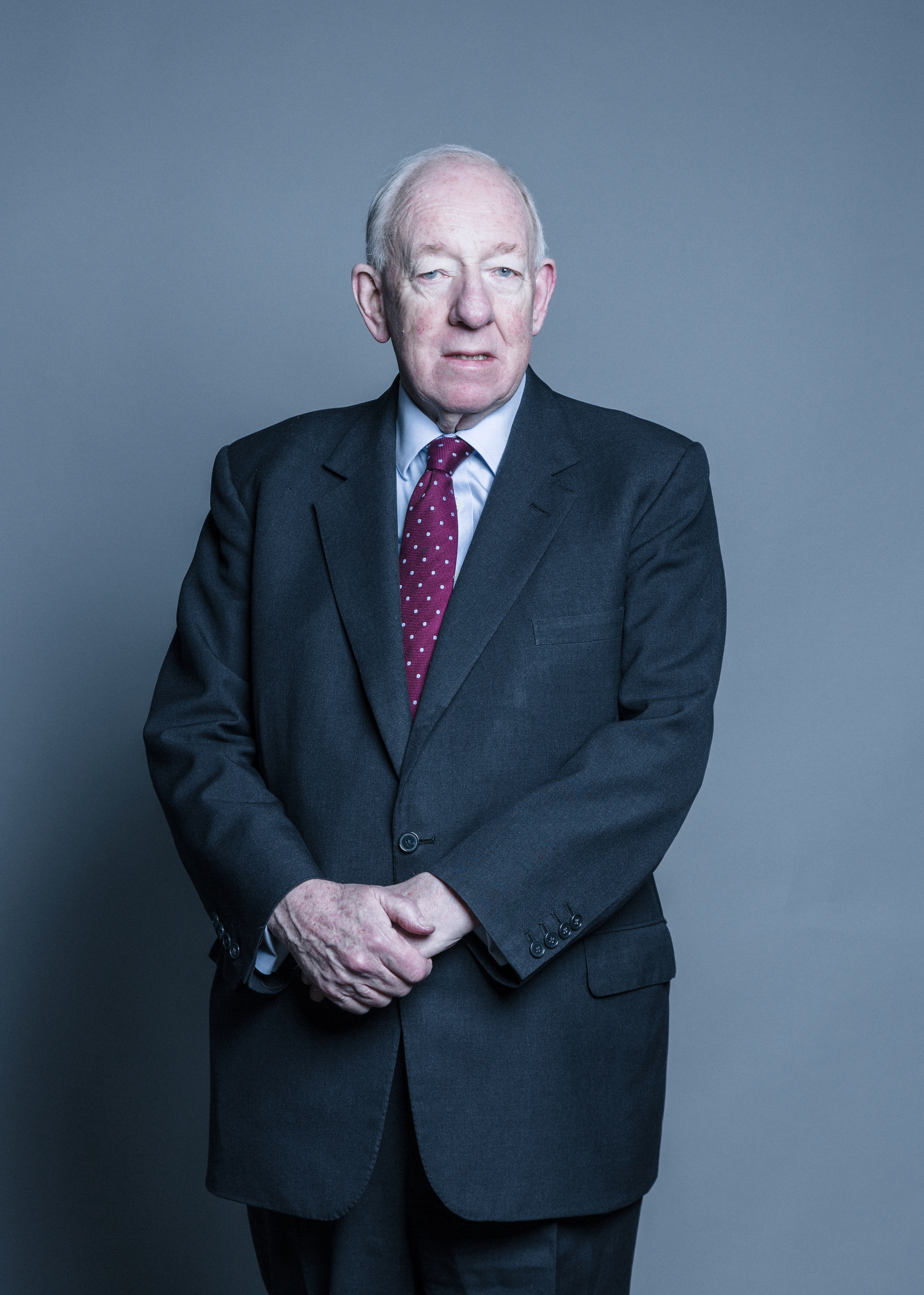 Official portrait of Lord Goodlad